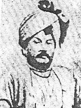 Mukunda Das